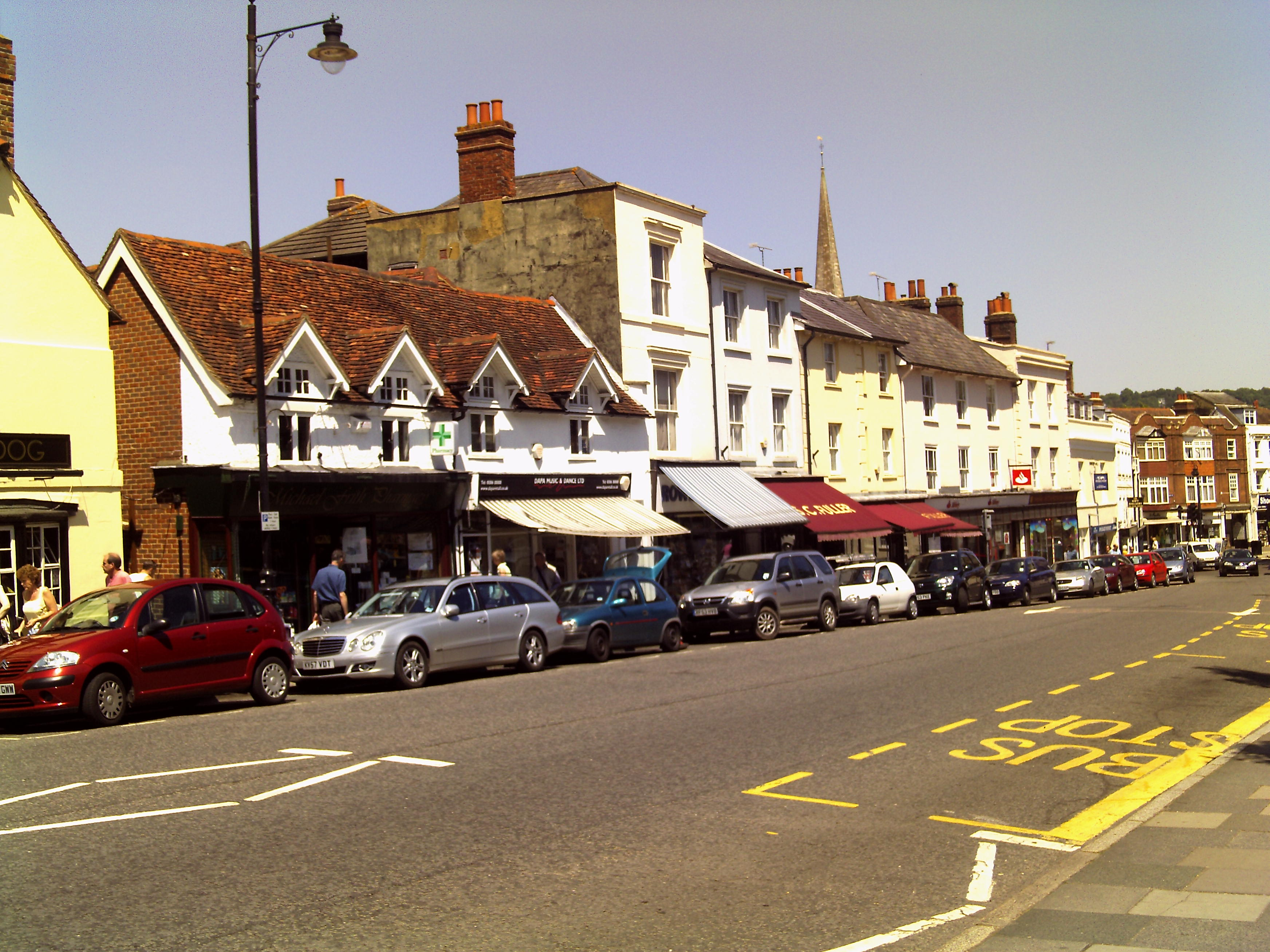 South Street, Dorking in May 2009. Compare to file:Dorking South Street 1959.jpg.